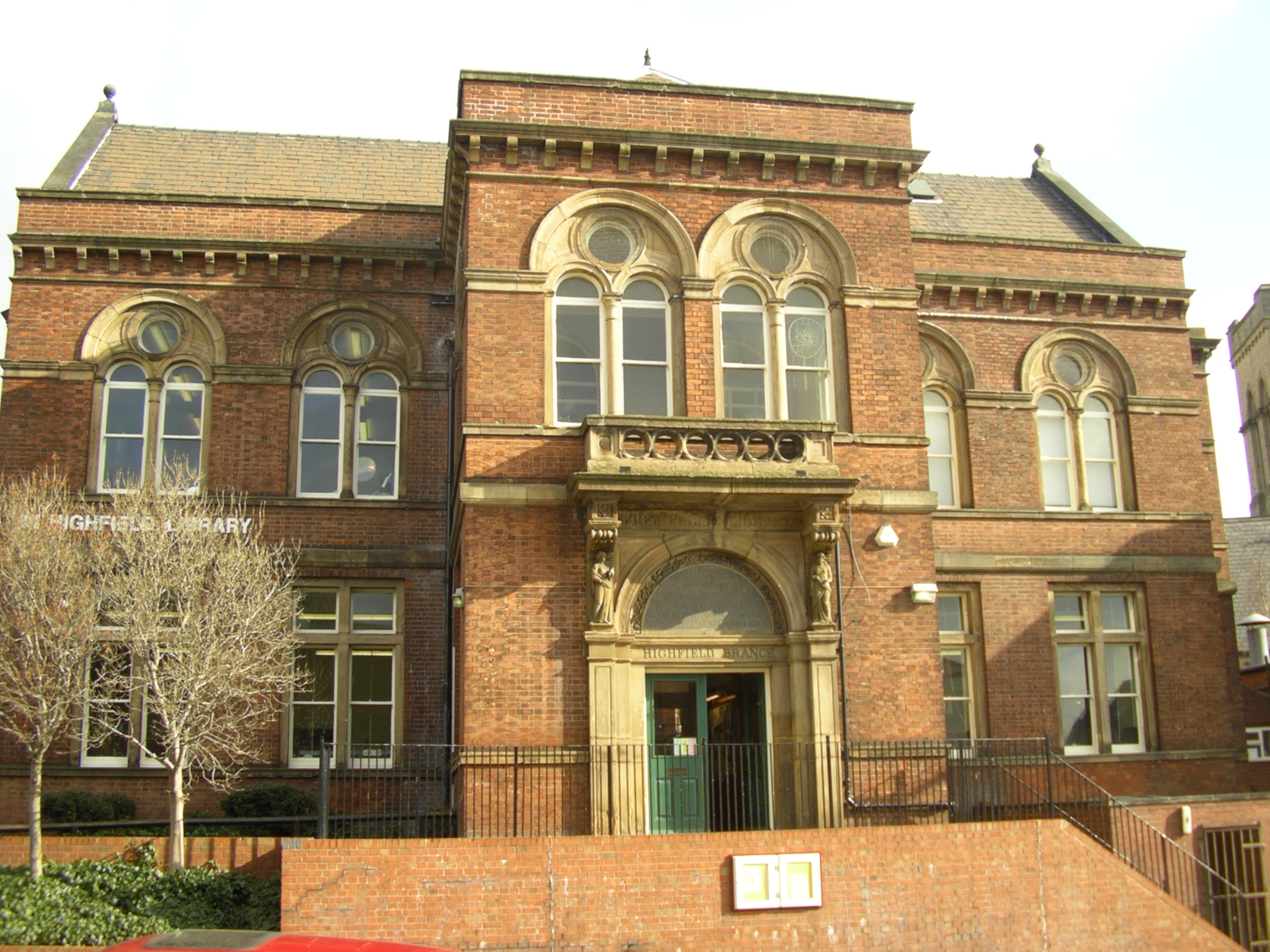 Highfield Library from London Road (Sheffield).